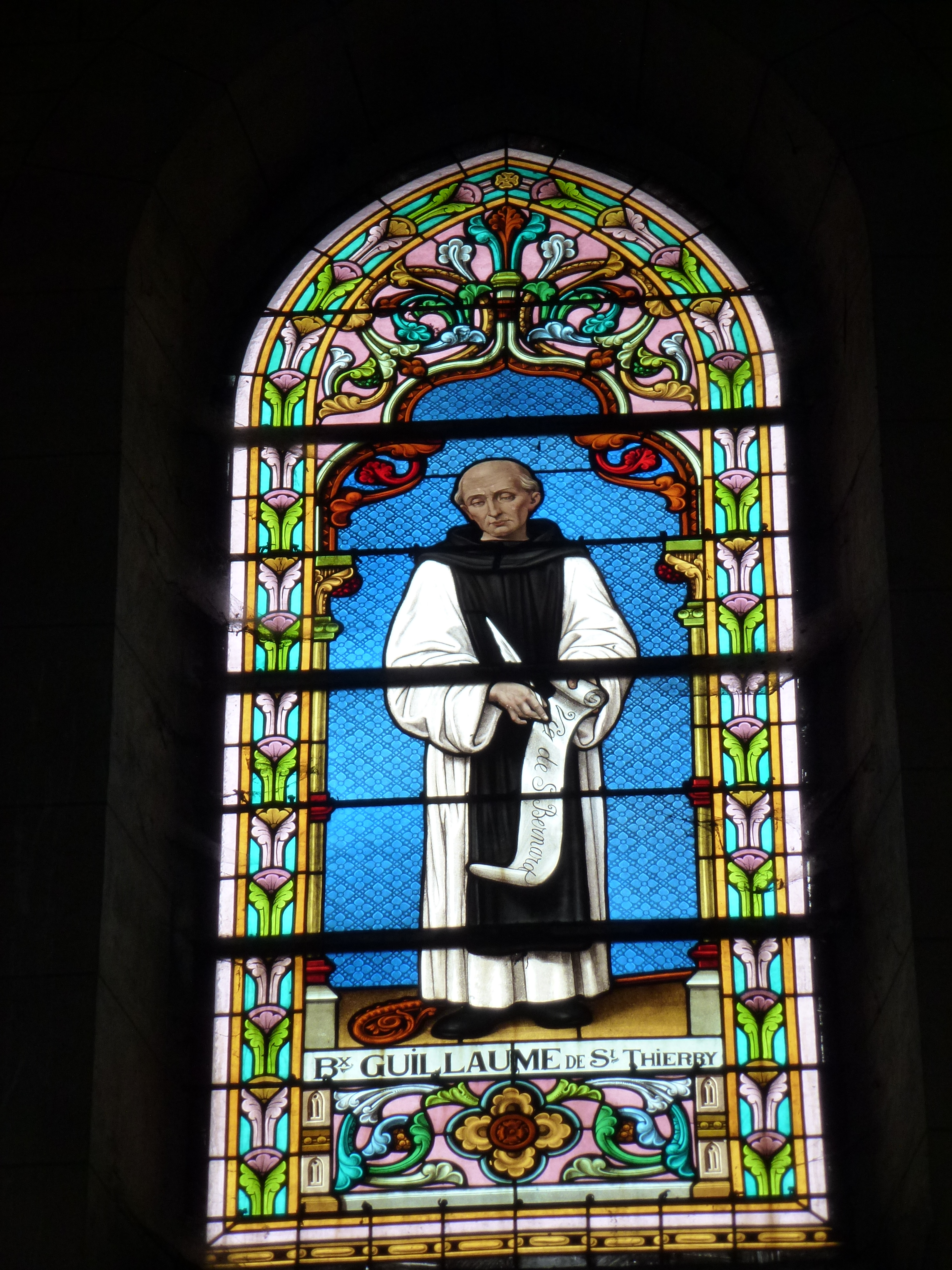 Signy-l'Abbaye (Ardennes) église, vitrail 13